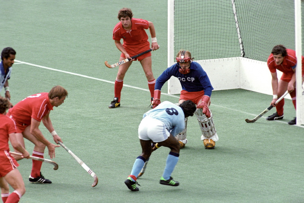 “USSR vs. India”. USSR vs. India. Field hockey. The 22nd Olympic Games. Summer 1980.